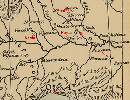 Battles in Lombardy during the Italian War of 1521. Engagements are marked with a crossed-swords emblem; major ones are labeled.